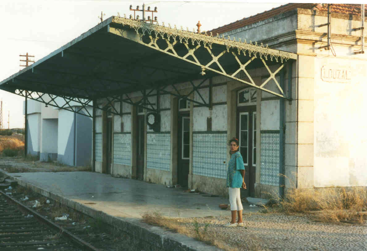 Train Station of Lousal